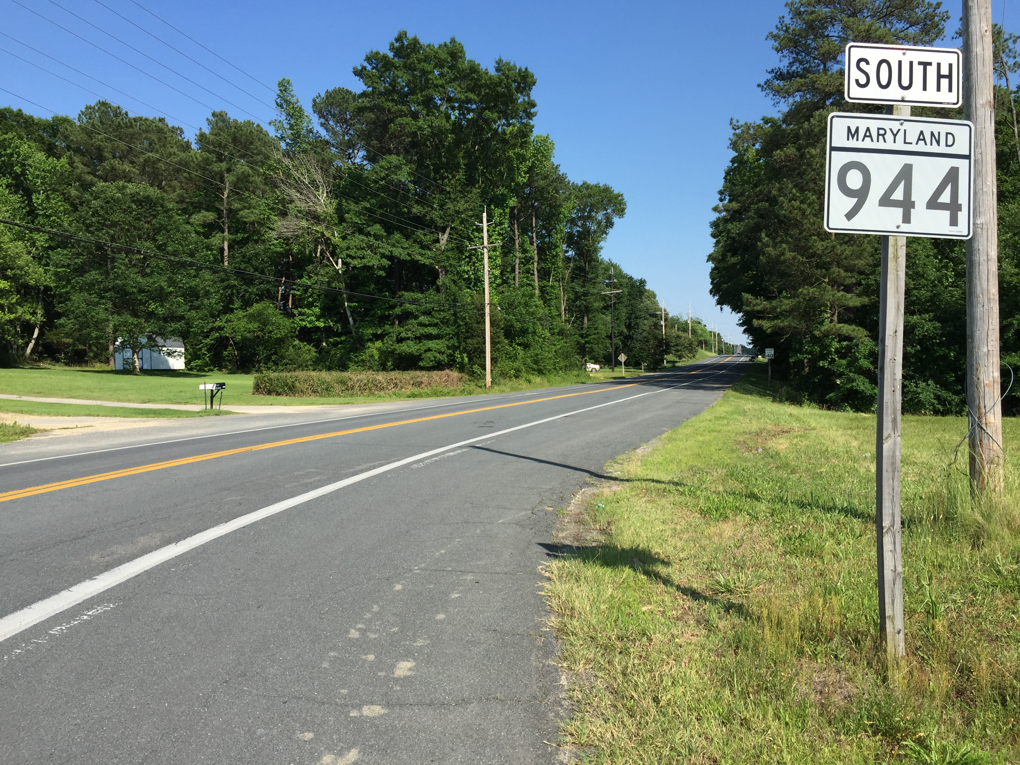 View south along Maryland State Route 944 (Mervell Dean Road) at Maryland State Route 235 (Three Notch Road) in Hollywood, St. Mary's County, Maryland